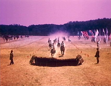 Narcissus and Psyche visit a horse race